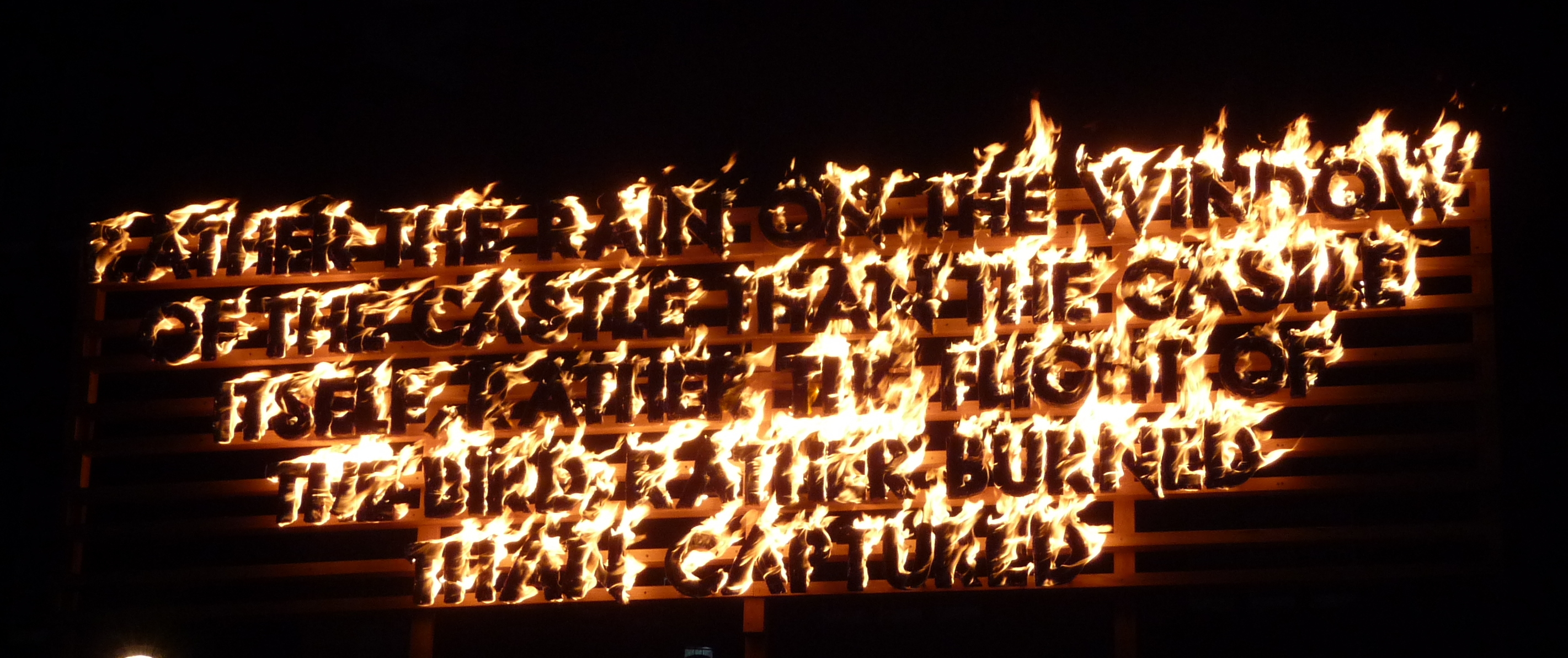 Edinburgh Fire Poem, Robert Montgomery. Installed on the Mound; burned 1st August 2013